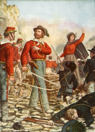 Garibaldi and his volunteer force enter to defend Rome in 1849. Illustration for Storia d'Italia by Paolo Giudici (Nerbini, 1929-32).